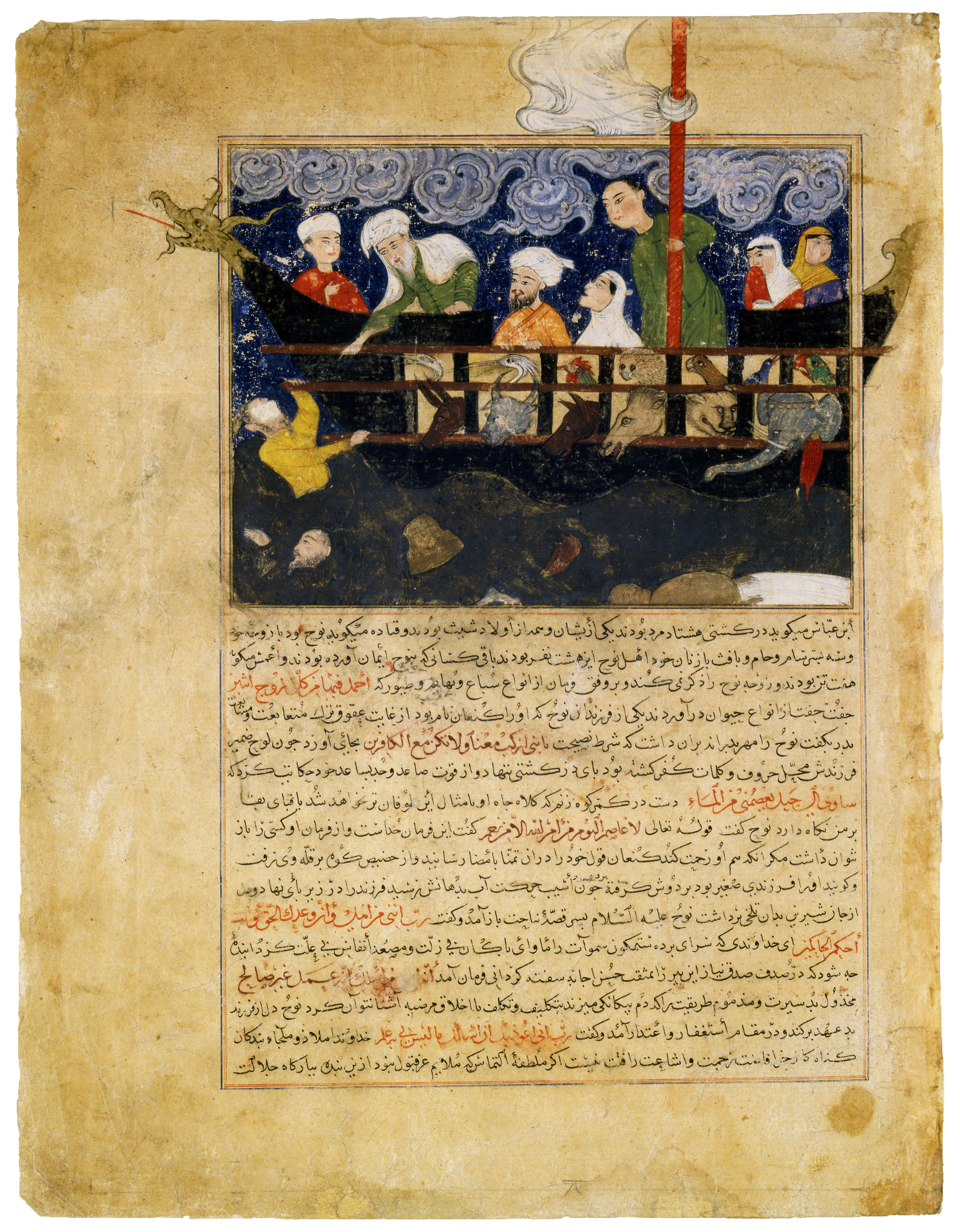 Miniature from Hafiz-i Abru’s Majma al-tawarikh. “Noah’s Ark” Iran (Afghanistan), Herat; c. 1425 Leaf: 42.3 × 32.6 cm Timur’s son Shah Rukh (1405-1447) ordered the historian Hafiz-i Abru to write a continuation of Rashid al-Din’s famous history of the world, Jami al-tawarikh. Like the Il-Khanids, the Timurids were concerned with legitimizing their right to rule, and Hafiz-i Abru’s “A Collection of Histories” covers a period that included the time of Shah Rukh himself. The style of the manuscript’s miniatures is slightly old-fashioned compared with the otherwise refined Timurid painting, but the scene on the stormy sea is quite dramatic, with the fluttering sail, the ark breaking out of the picture frame, and the swollen bodies. The animals that are to populate the earth are rendered both humorously and fairly realistically.